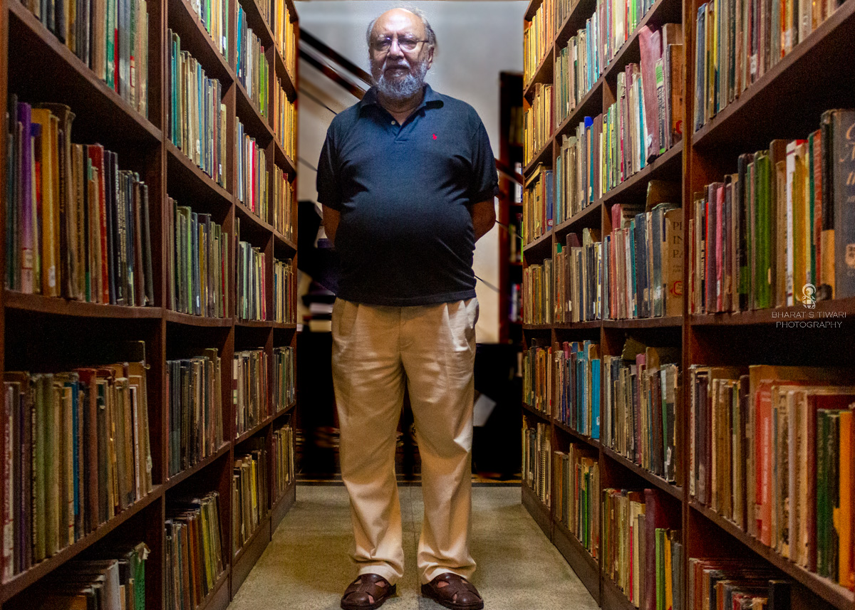 Ashis Nandy in the CSDS library.